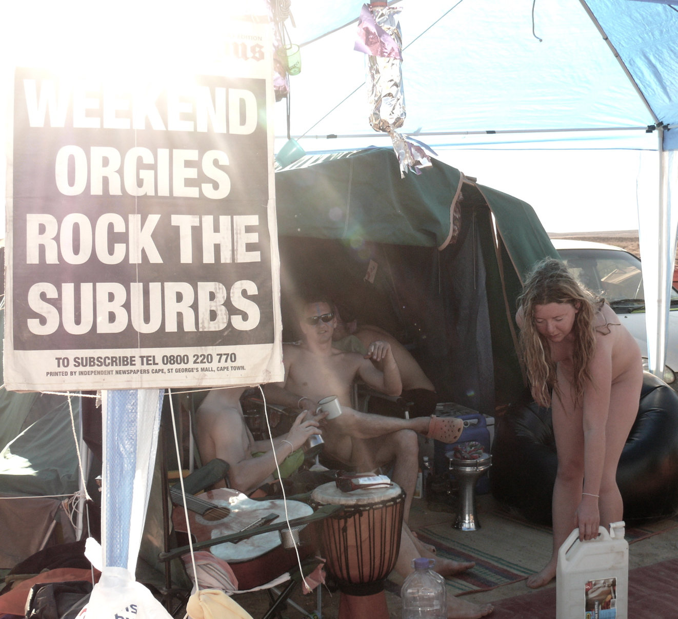 First regional Burning Man in Africa. Tankwa Town, Karoo, November 2007.